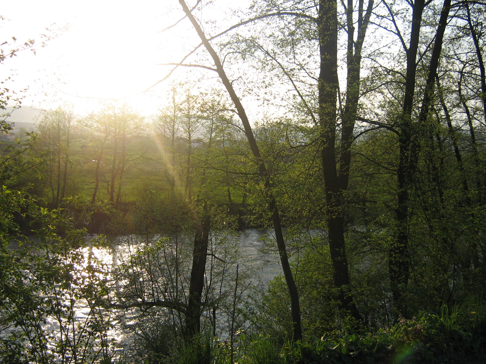 View from nearby Porjecani towards Bosna river